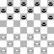 Opening "Igra Bobrova" (Игра Боброва) in russian checkers